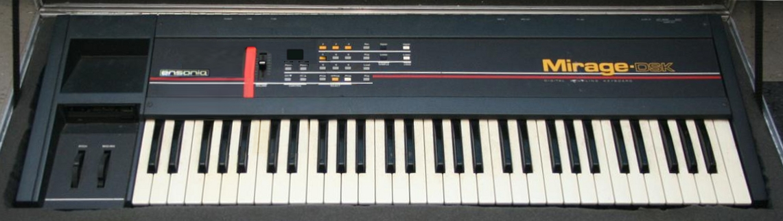 Ensoniq Mirage DSK-1 (digital sampling keyboard) later model without serial port ensoniq logo is from Ensoniq_EPS_Photo.jpg